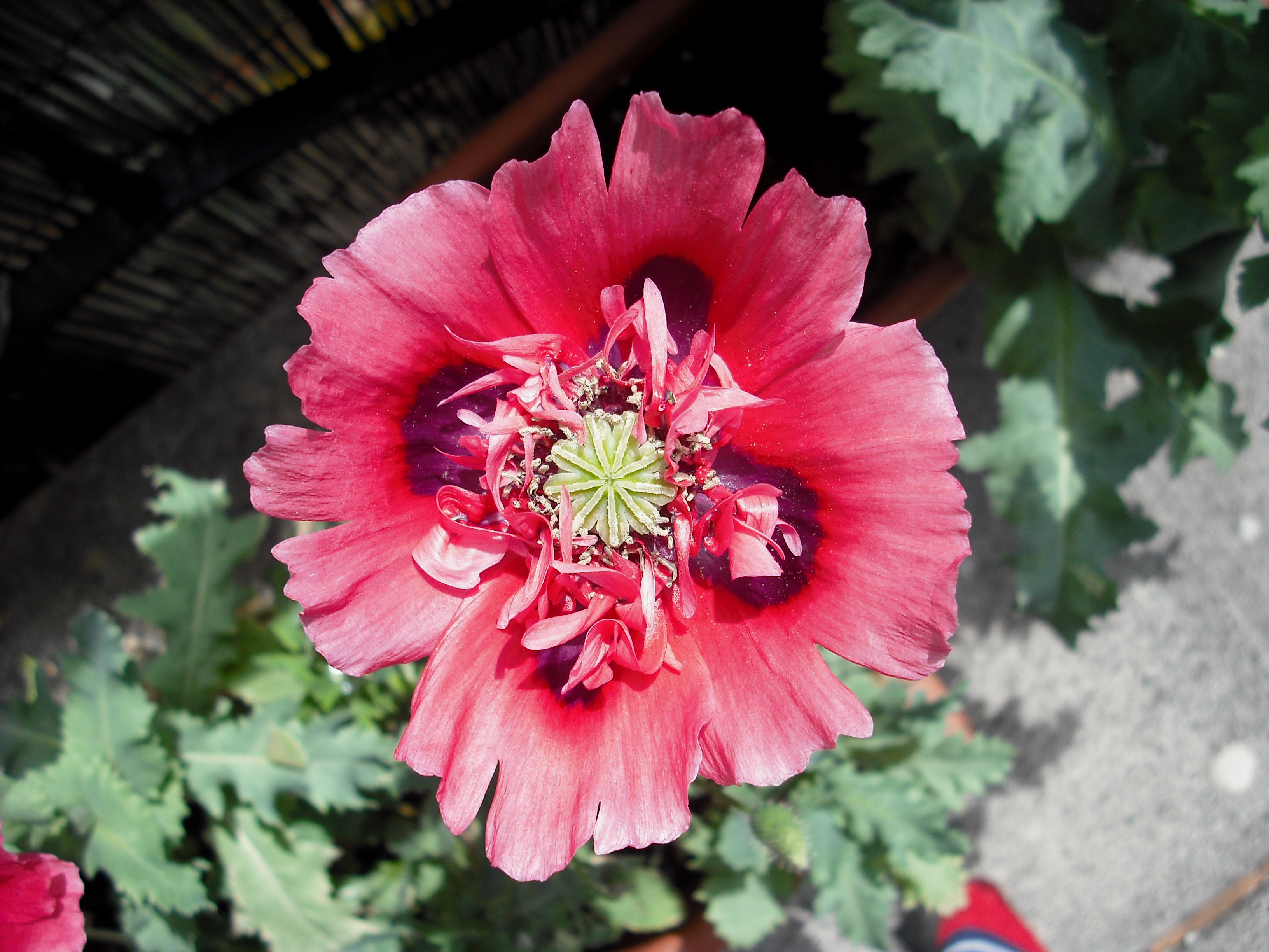 A red/pink Opium Poppy (papaver somniferum) in flower.